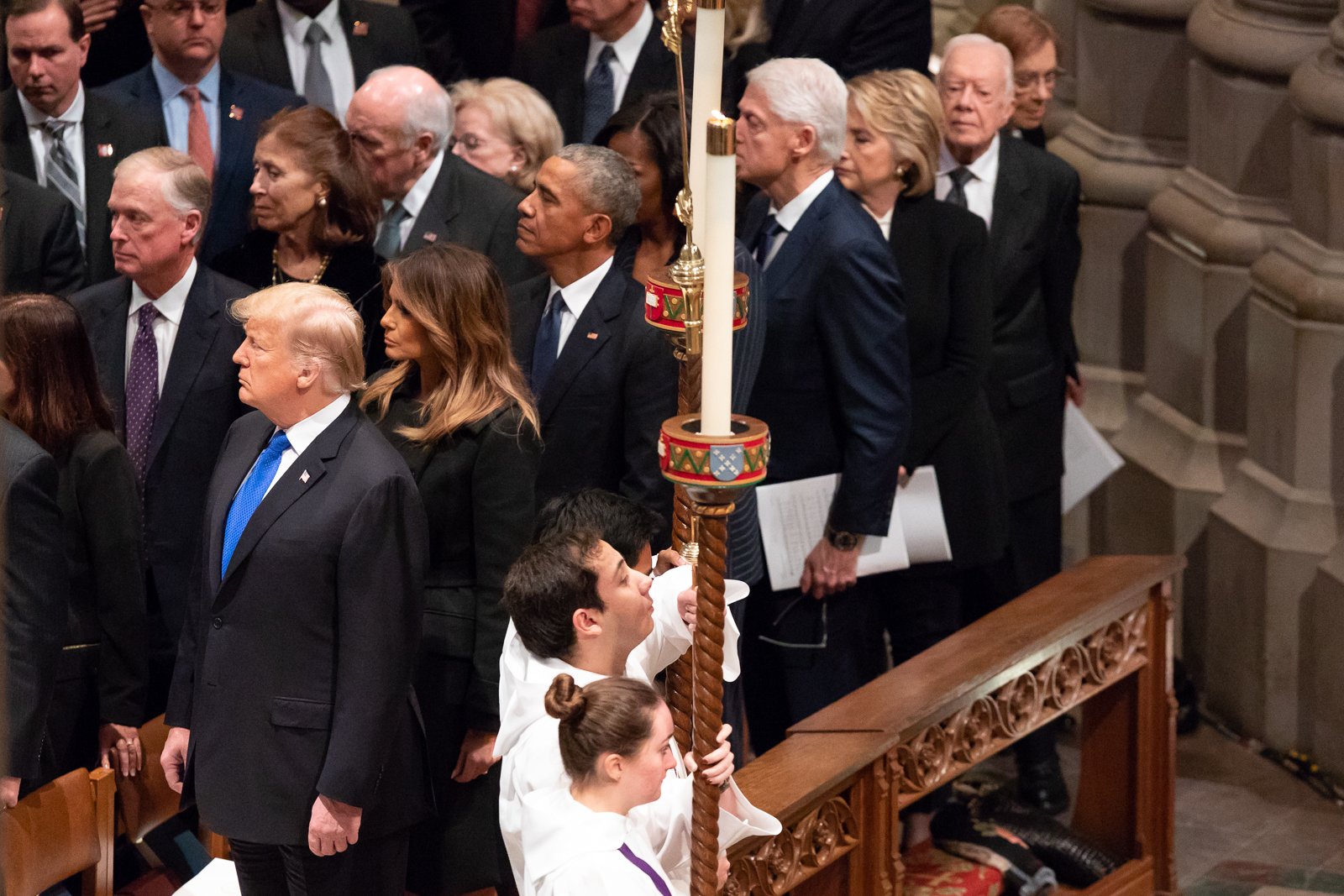 President Donald J. Trump and First Lady Melania Trump, joined by former President Barack Obama and First Lady Michelle Obama, former President Bill Clinton and First Lady Hillary Clinton and former President Jimmy Carter and First Lady Rosalynn Carter, watch as the casket of former President George H. W. Bush arrives to the funeral service Wednesday, Dec. 5, 2018, at the Washington National Cathedral in Washington, D.C. (Official White House Photo by Andrea Hanks)